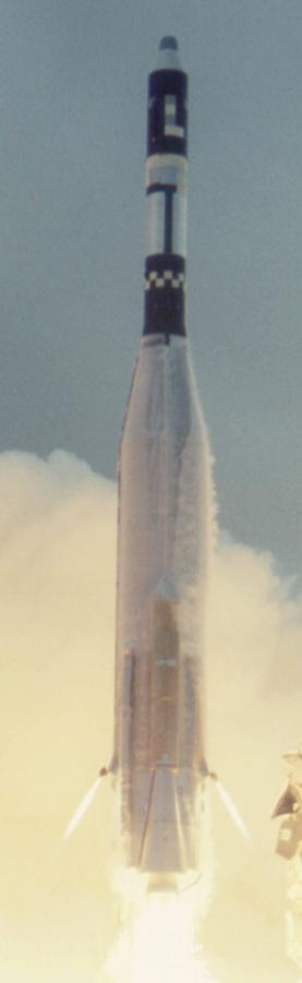 Launch of the Atlas SLV-3 Agena D with KH-7 24 satellite.